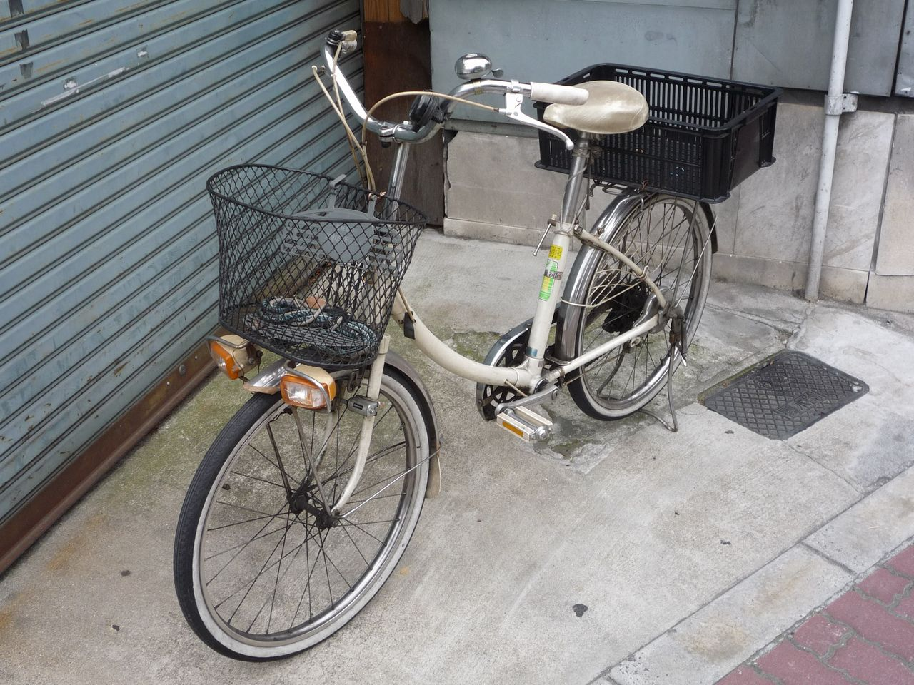 Japanese MiniCycle 5speed ISO-TyreSize47-501T 70's